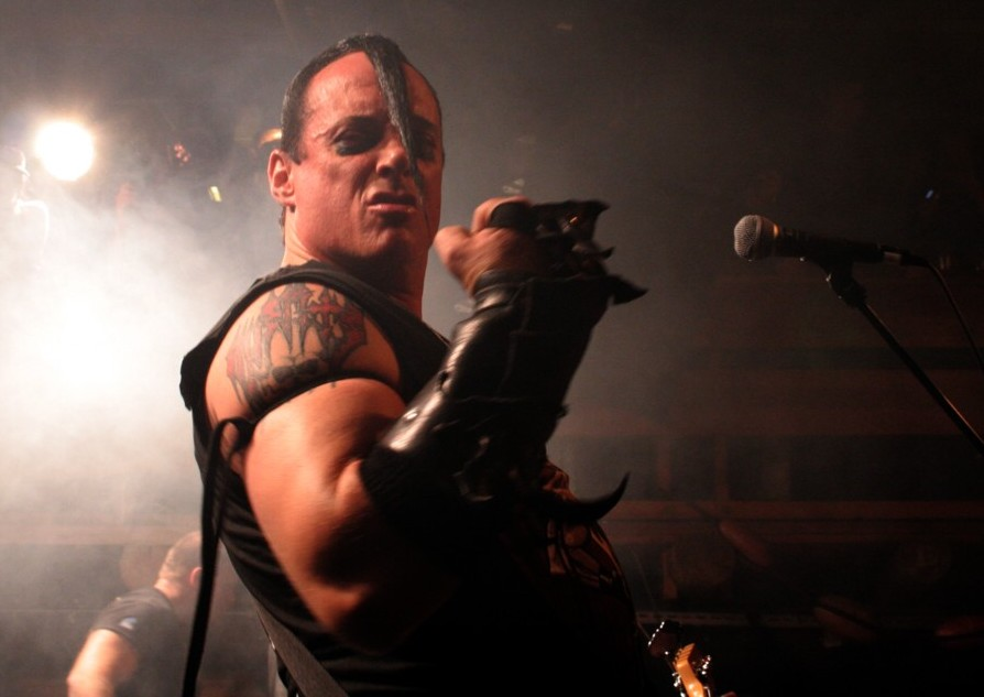 Jerry Only in concert with the Misfits.